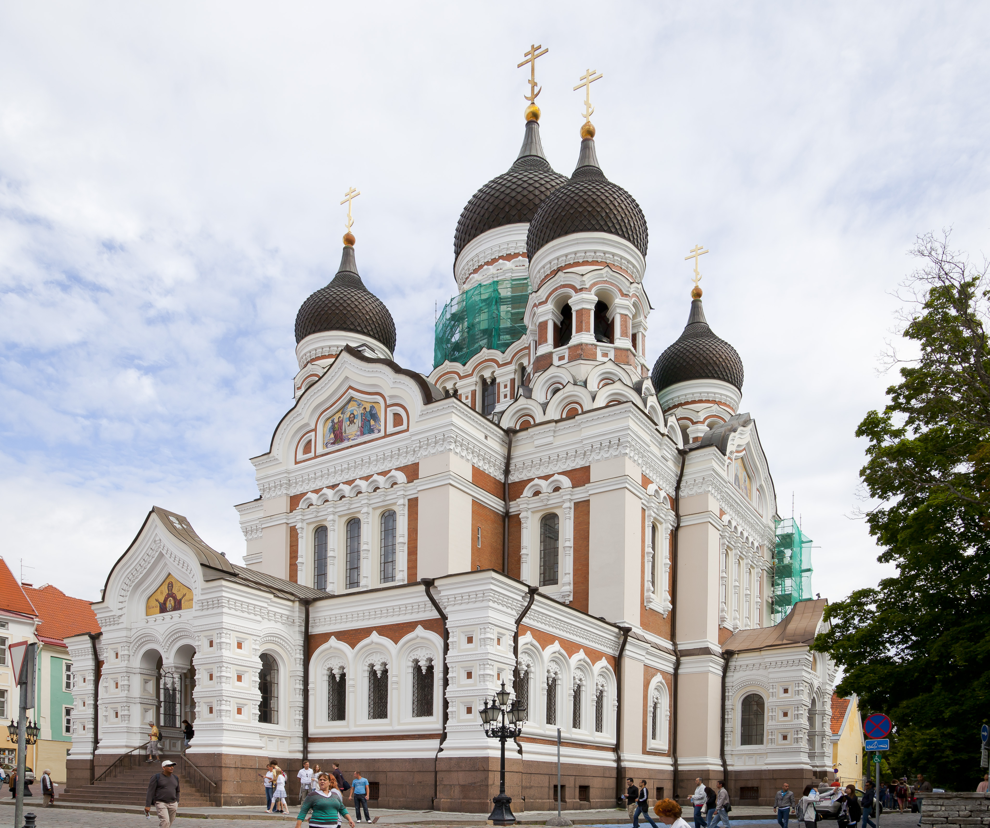 Alexander Nevsky Cathedral, Tallinn, Estonia